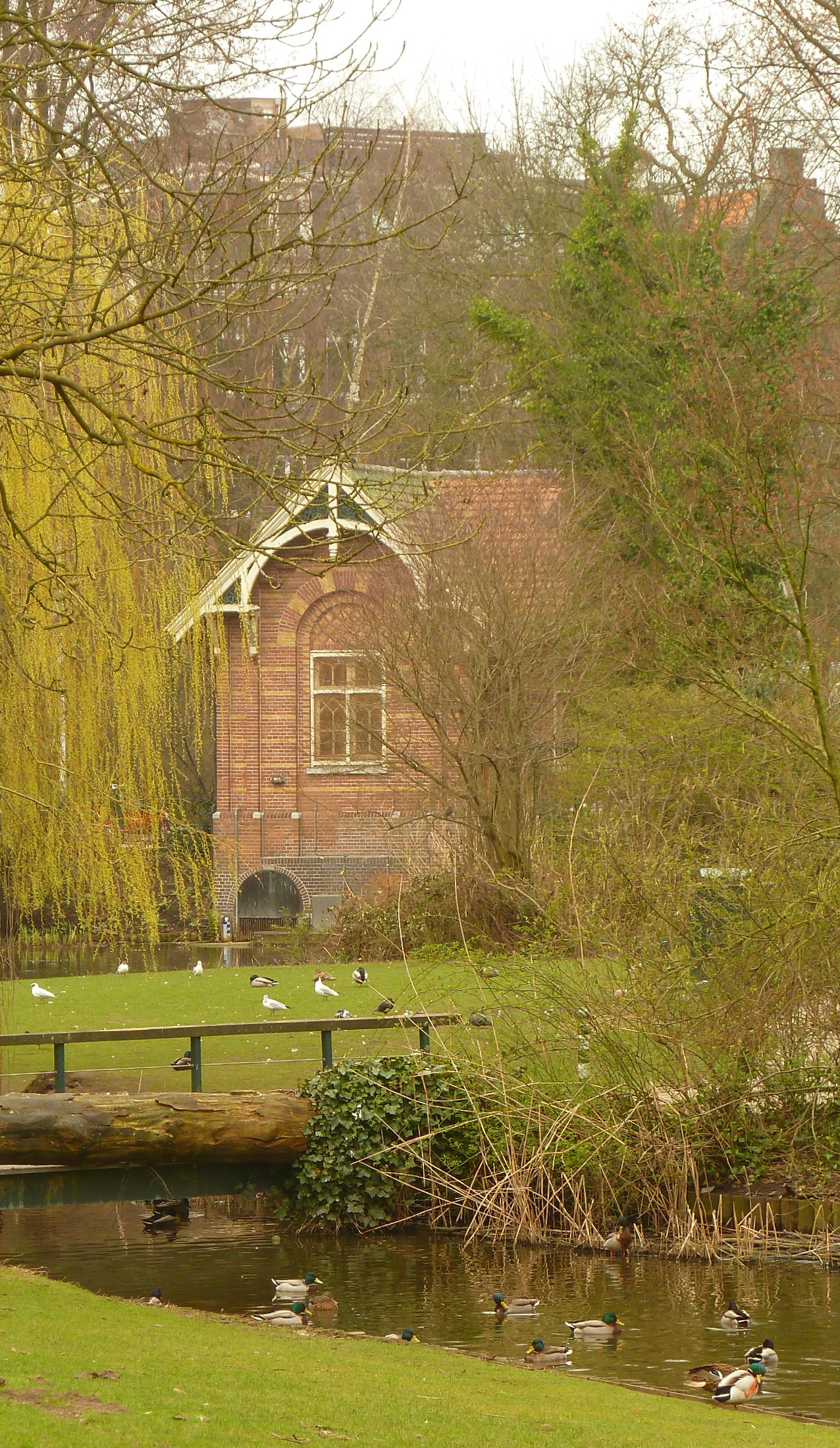 Pumping station in Sarphatipark, Amsterdam, Netherlands